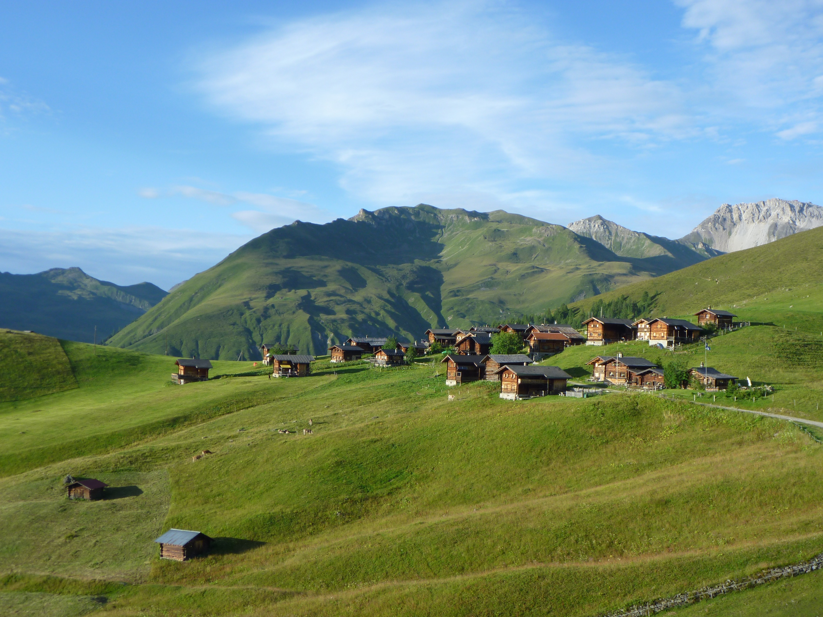 Medergen near Arosa/Switzerland